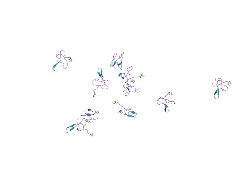 Cartoon representation of the molecular structure of protein registered with 1gur code.